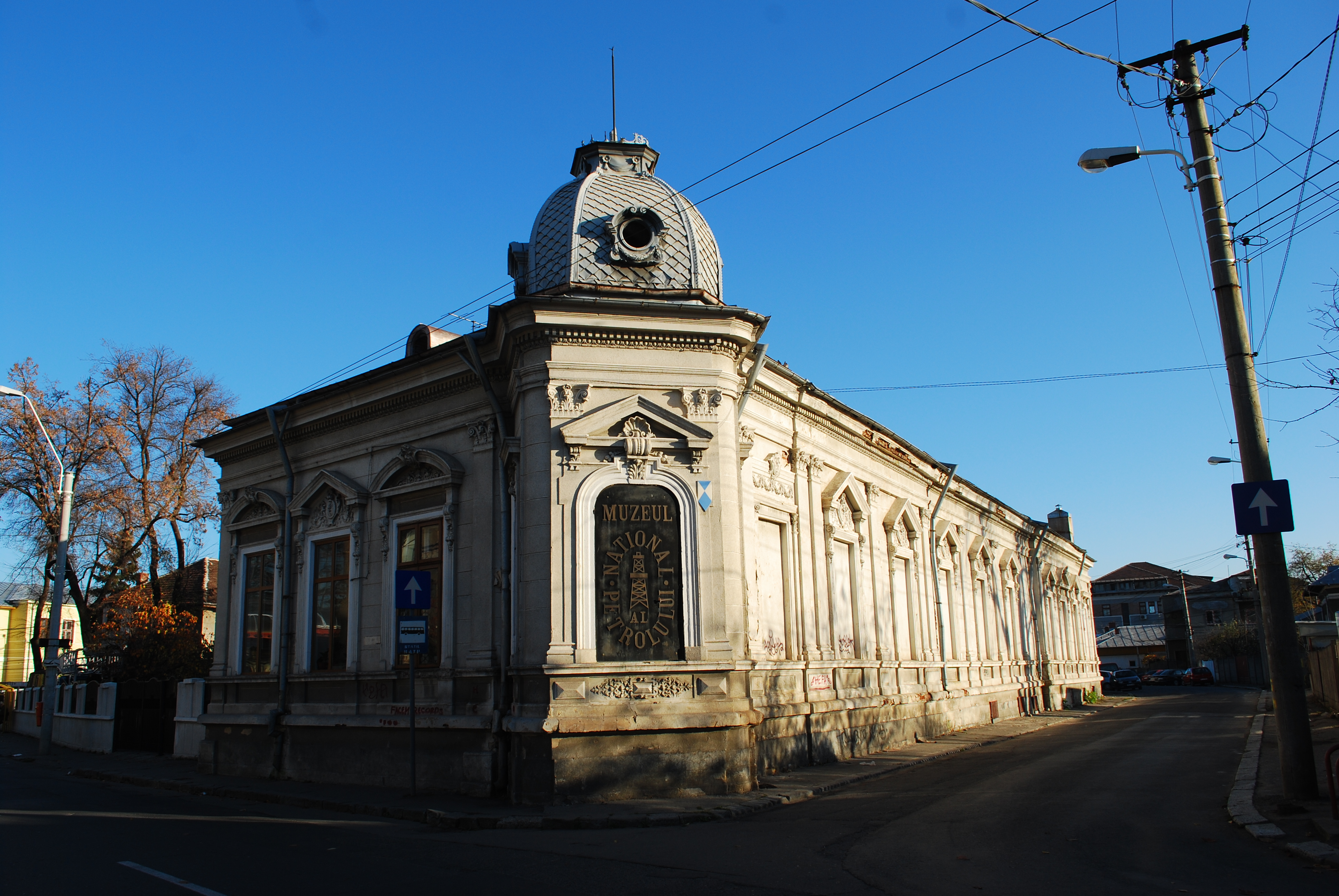 National Petroleum Museum in Ploieşti, RomaniaRomână: Muzeul Petrolului din Ploieşti, România